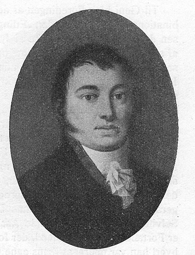 Lauritz Schebye Vedel Simonsen, painted by S. L. Lange in 1812.